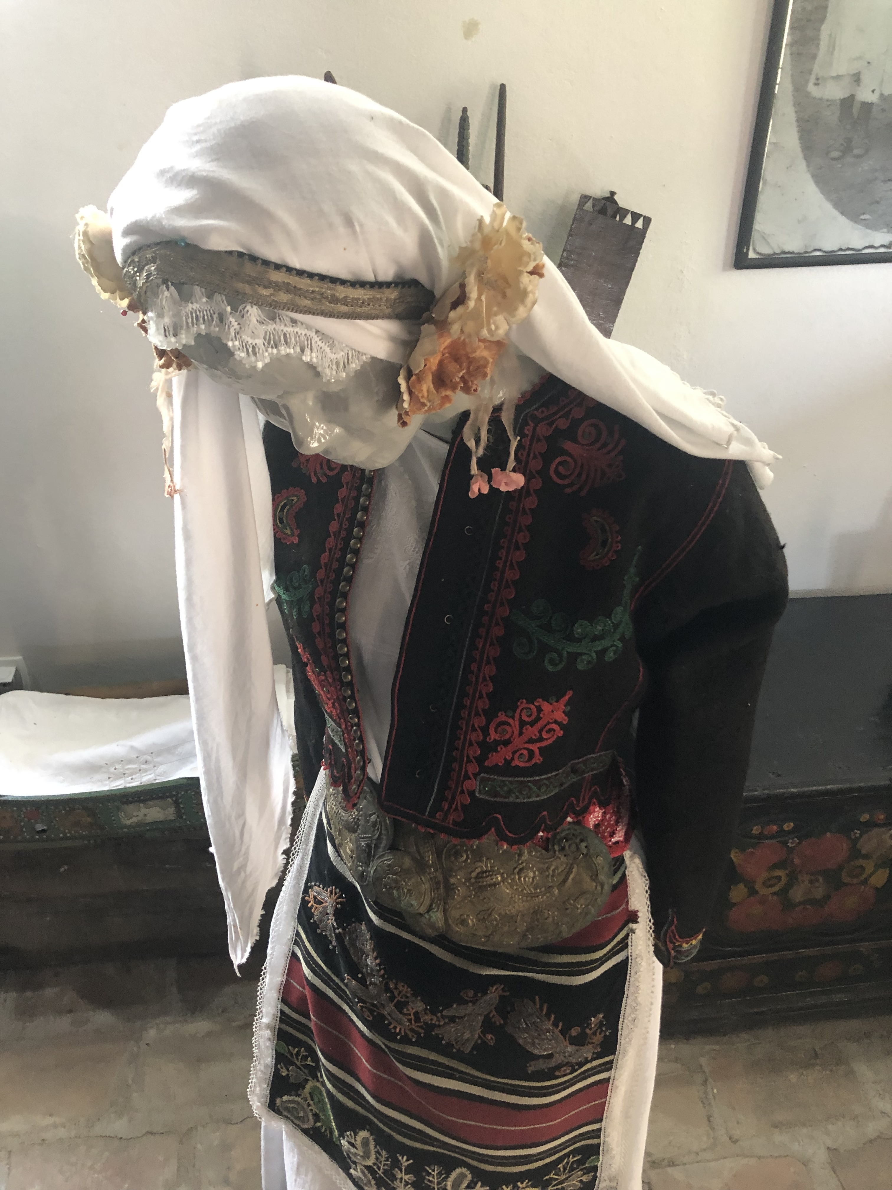 Zubun represents traditional Serbian clothes worn by women in the 19th century. It is located in Etno museum in Požarevac, Serbia.